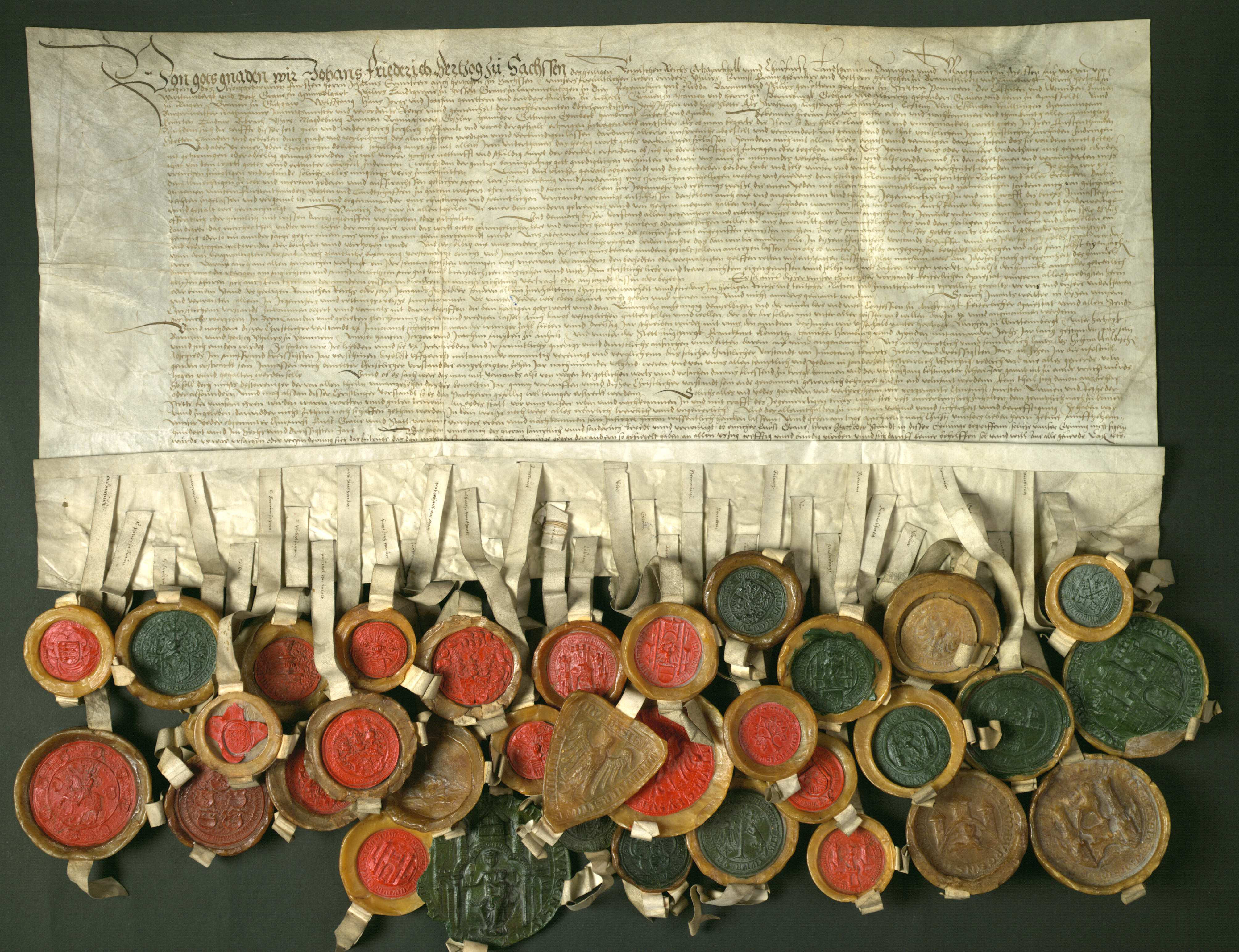 Schmalkaldic League military treaty, extended on September 29, 1536